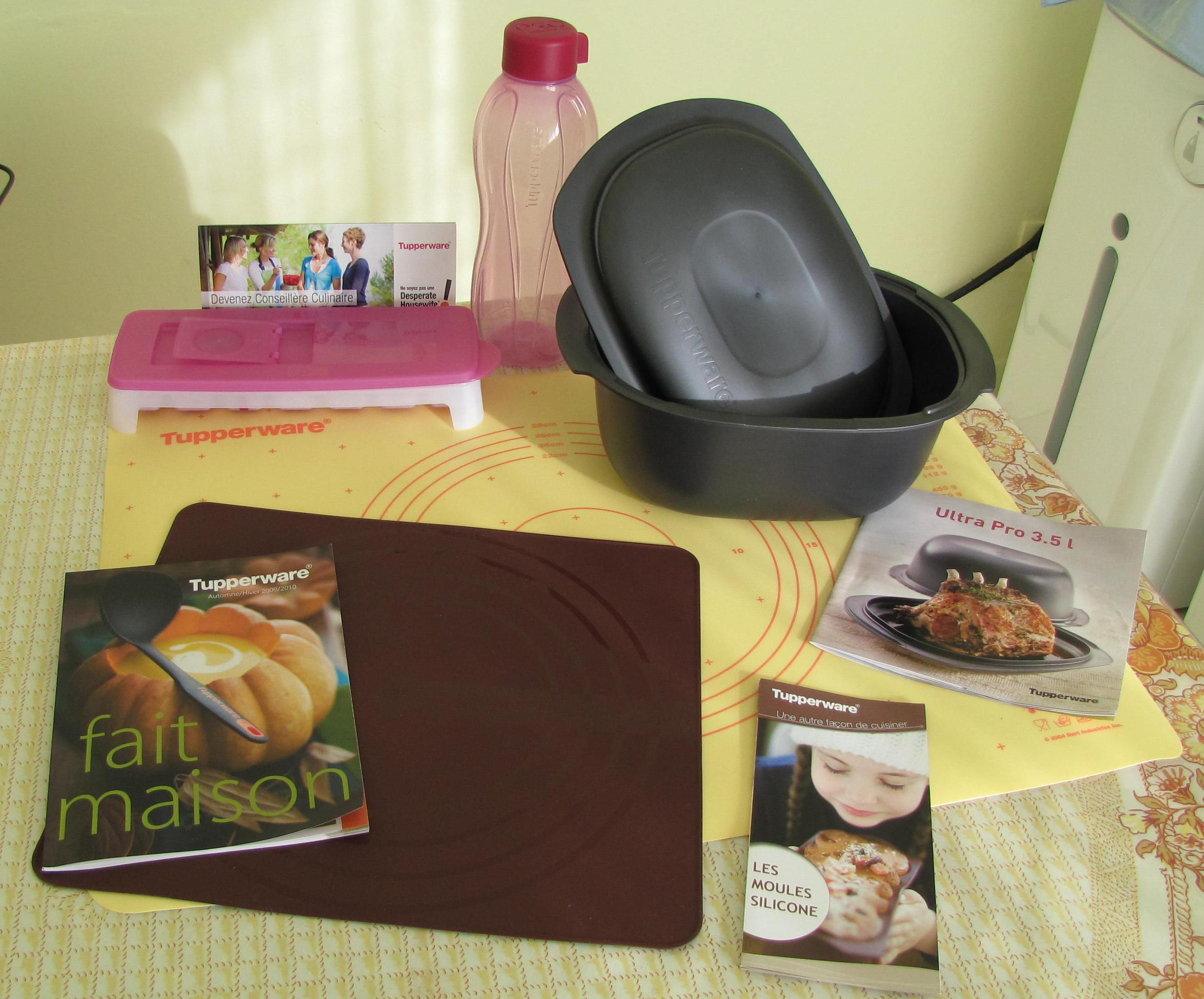 The Tupperware brand items.